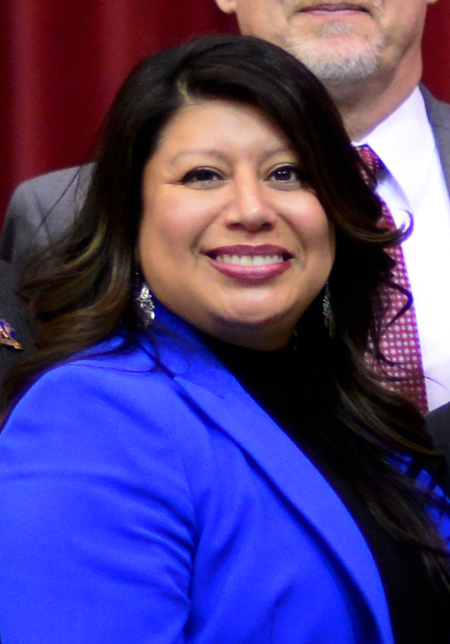 Oregon Governor Kate Brown (center) poses for a photo with state representatives and military leaders, May 25, in Salem, Oregon, following a mobilization ceremony honoring 30 Oregon Army National Guard Soldiers from the 1186th Military Police Company who are scheduled to deploy to Afghanistan. (Photo by Sgt. 1st Class April Davis, Oregon Military Department Public Affairs)